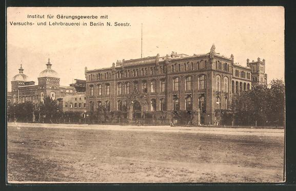 Ansichtskarte Berlin-Wedding, Institut für Gärungsgewerbe mit Versuchs- und Lehrbrauerei